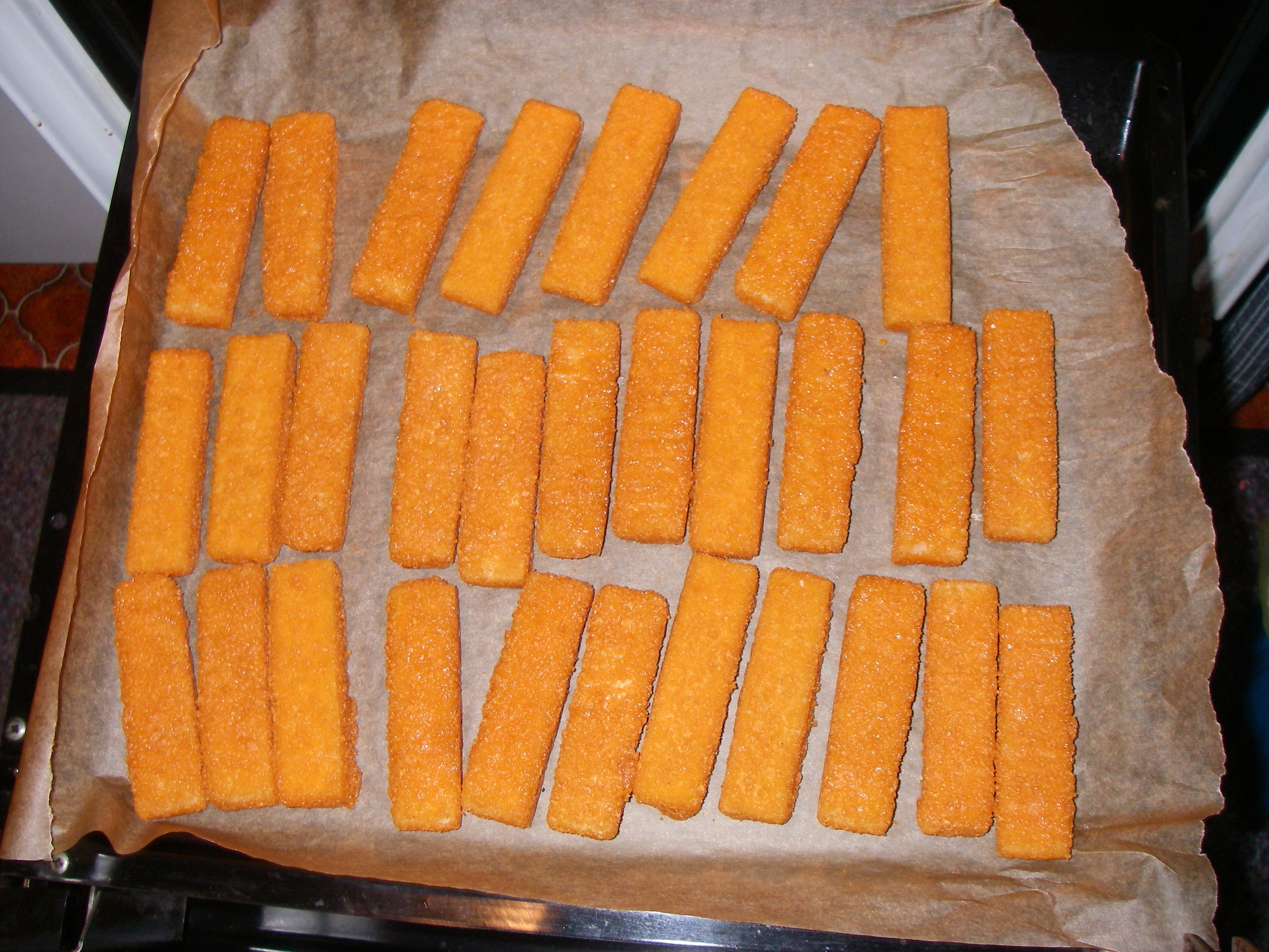 Baken fishfingers on parchment paper